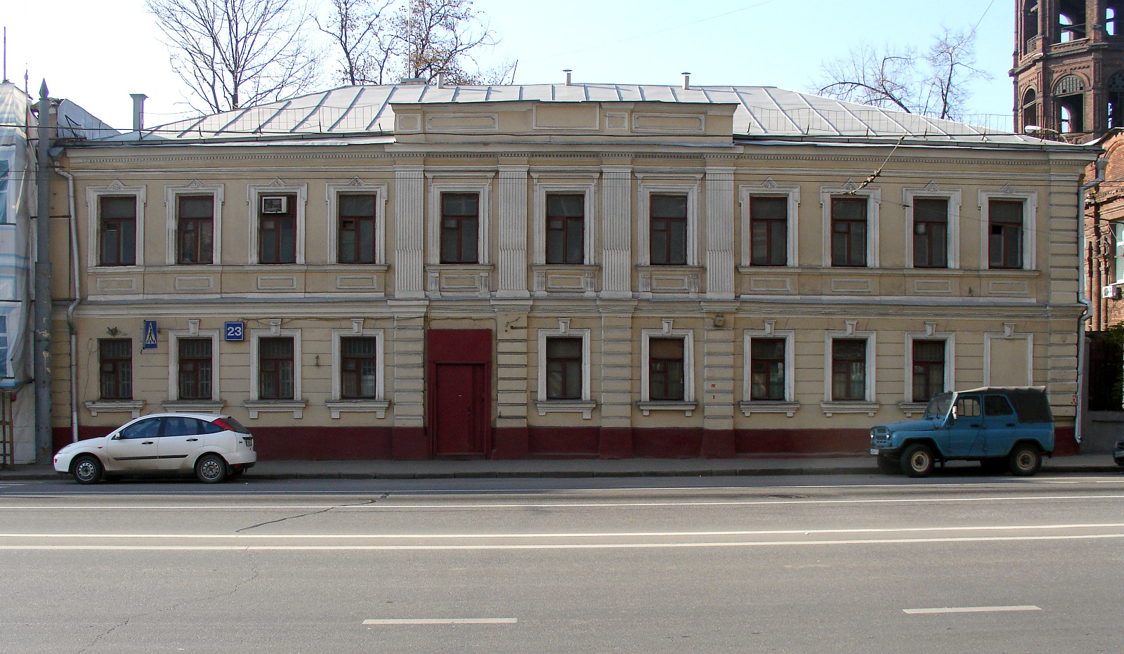 Dolgorukovskaya Street, Moscow.